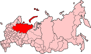 North Kray 1926 - 1936, based on Image:RussiaArkhangelsk2007-07.png